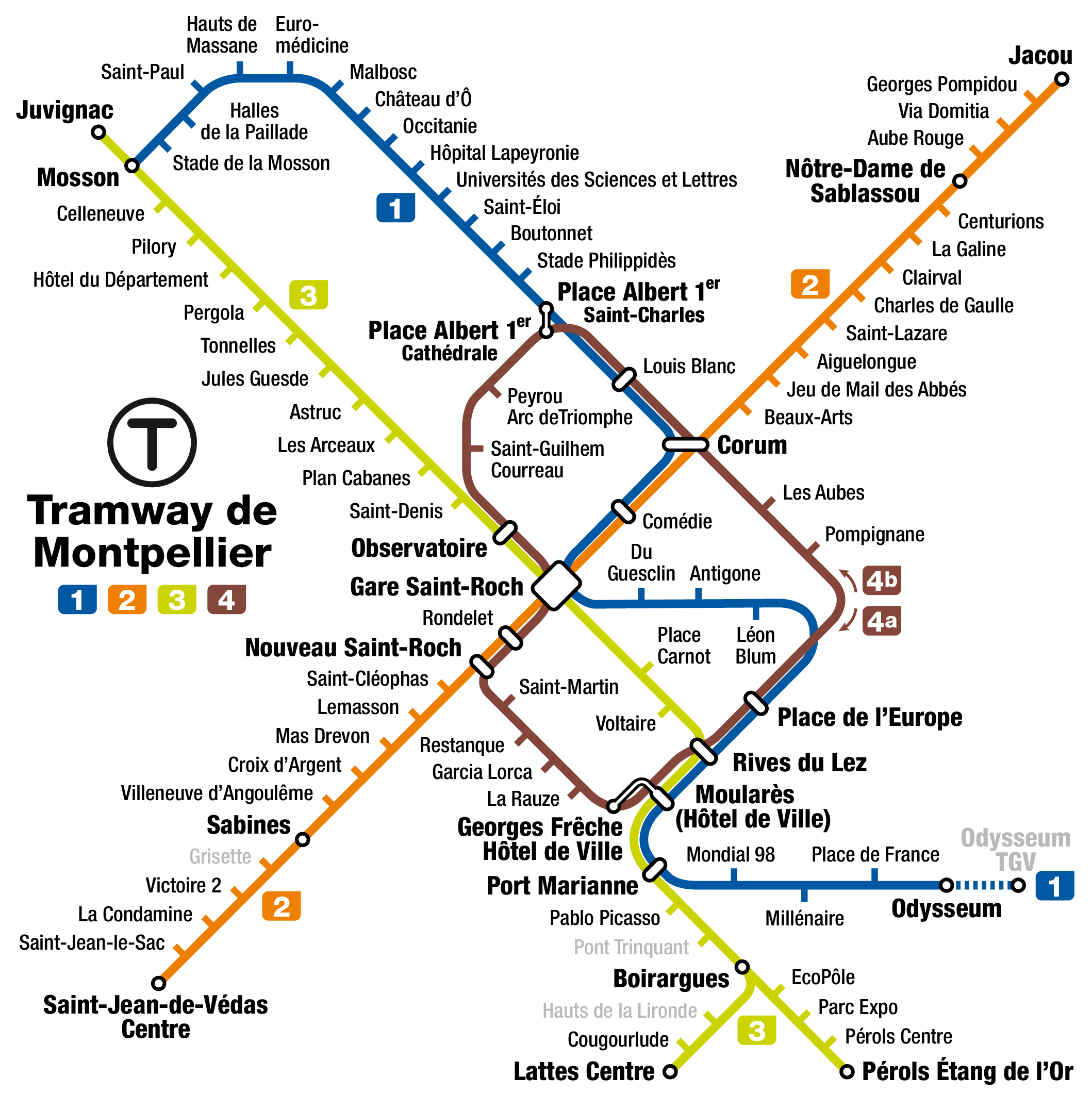 Schematical map of the Montpellier tramway system